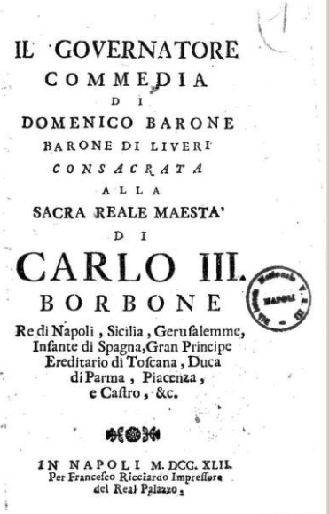 Frontespizio della commedia Il Governatore 1742